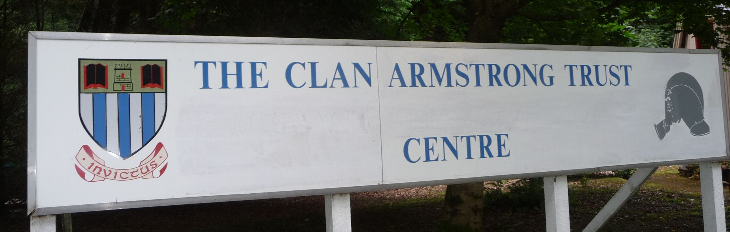 Clan in Langholm, Dumfries and Galloway, Scotland